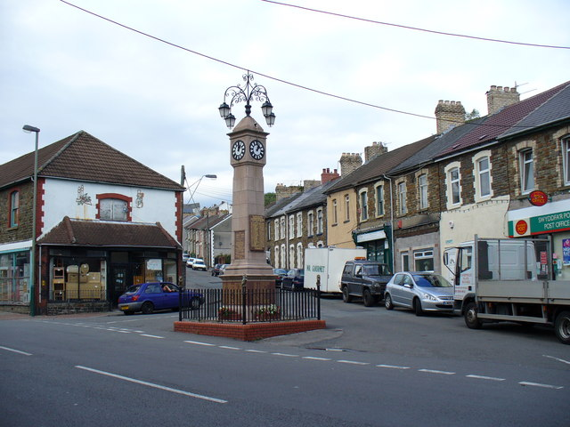 Senghenydd, The Square